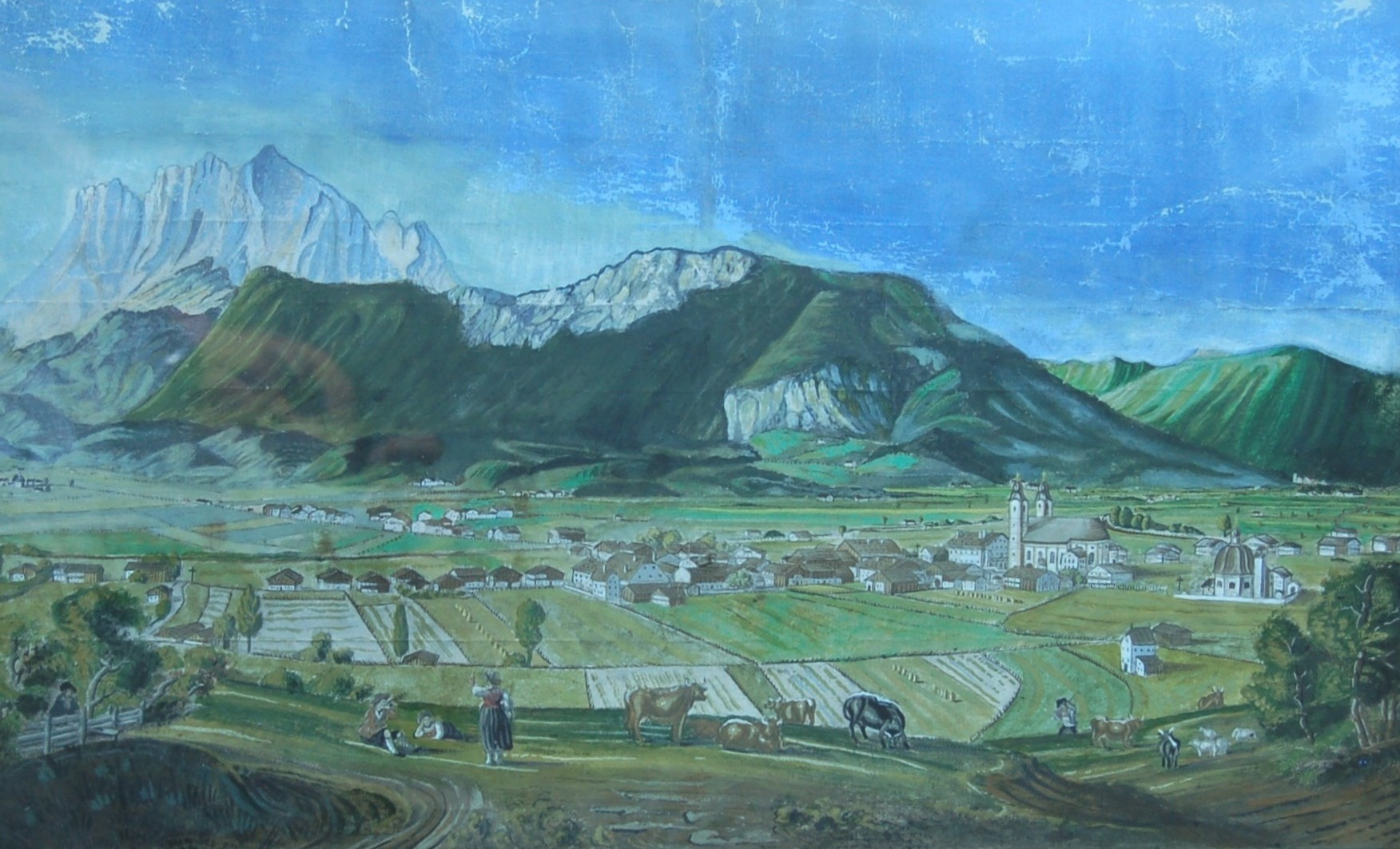 St. Johann in Tirol with "Kaiser" mountains 1800